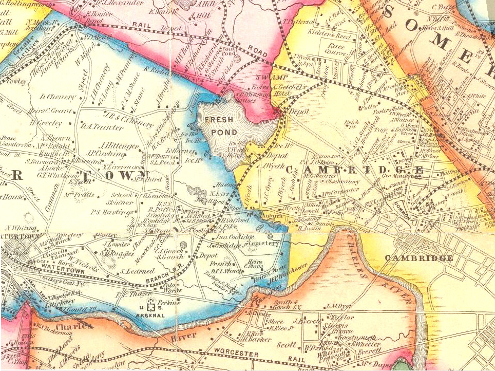 Map showing the route of the Watertown Branch Railroad between Cambridge and Watertown in Massachusetts, USA. From a map entitled "Boston and vicinity", by F. G. Sidney and R. P. Smith, published by J. B. Shields of Boston, 1852, scanned by the David Rumsey Map Collection, 2000.